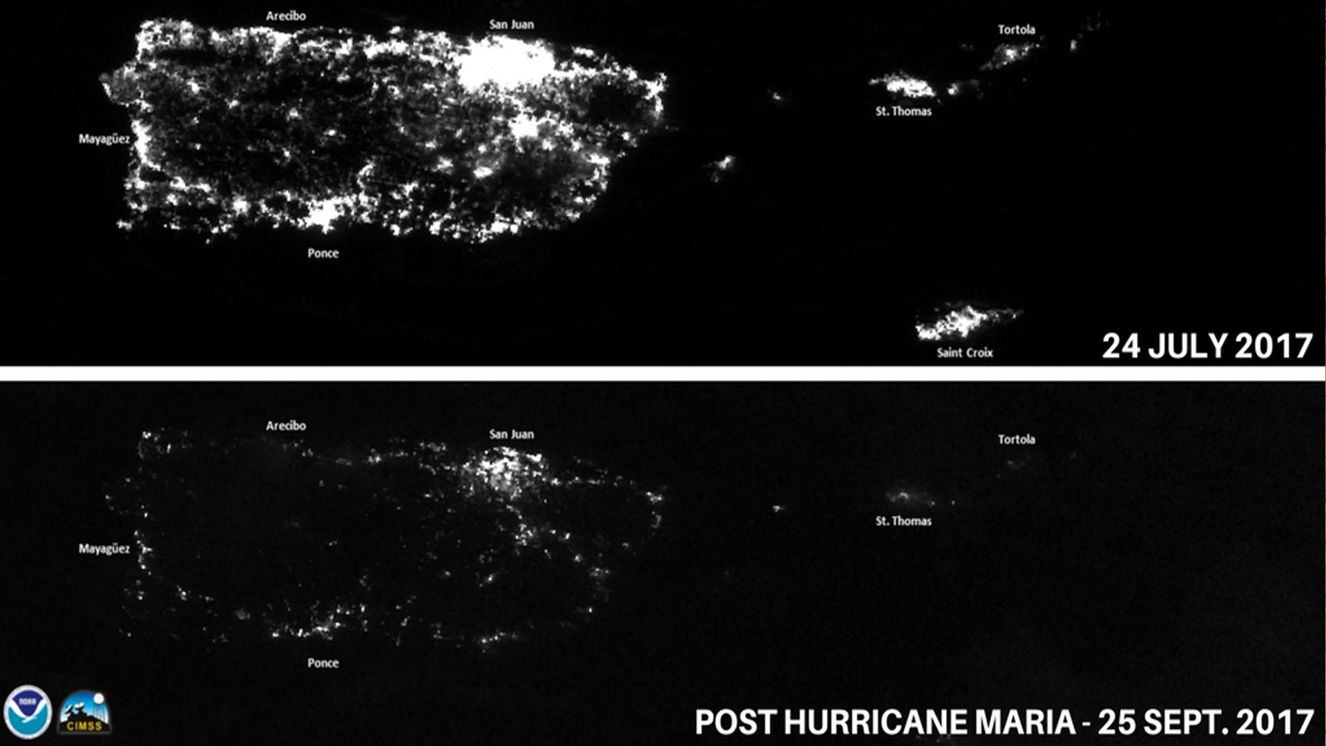 NOAA Satellites captured images of Puerto Rico after Hurricane Maria knocked out the power grid and left millions without electricity.